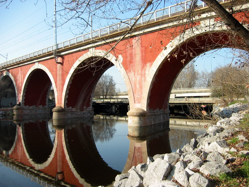 Puente de los Franceses (literally "Bridge of the French"). Railway bridge over the Manzanares River in Madrid (Spain). Built in 1862 by French engineers (hence its name).